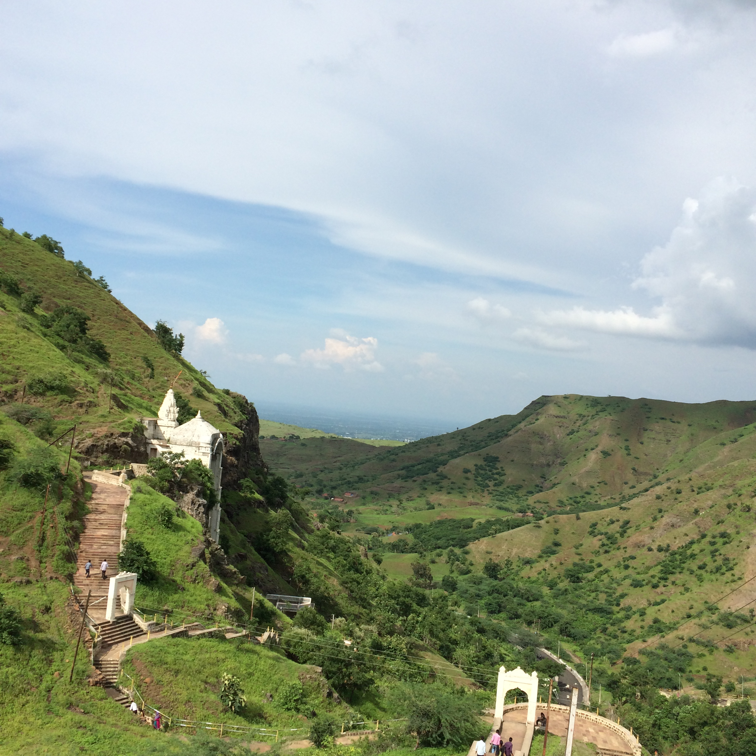 Showing hike to Bawangaja ji